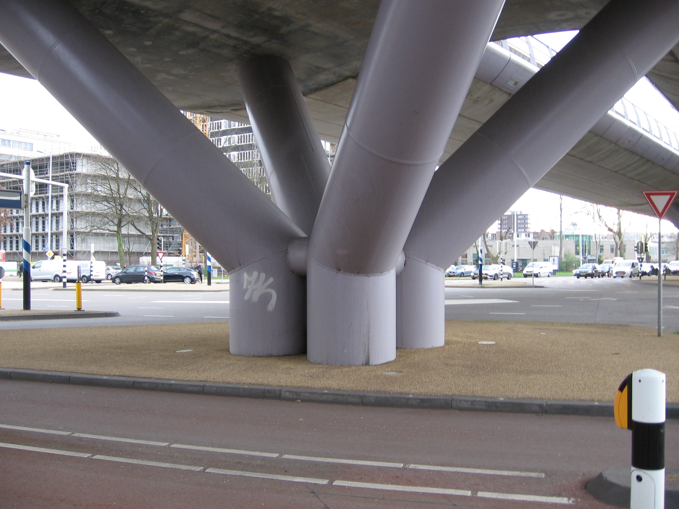 Quadruple support pillars for the fly-over at the traffic junction 24 Oktoberplein (Utrecht)